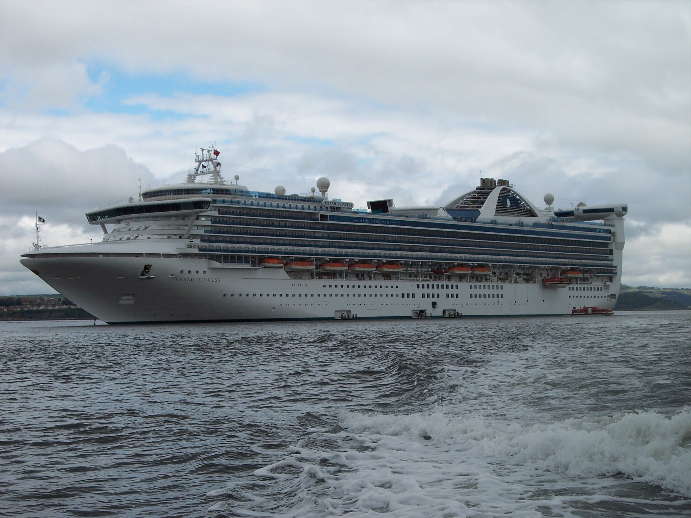 A photo of the Grand Princess cruise ship.